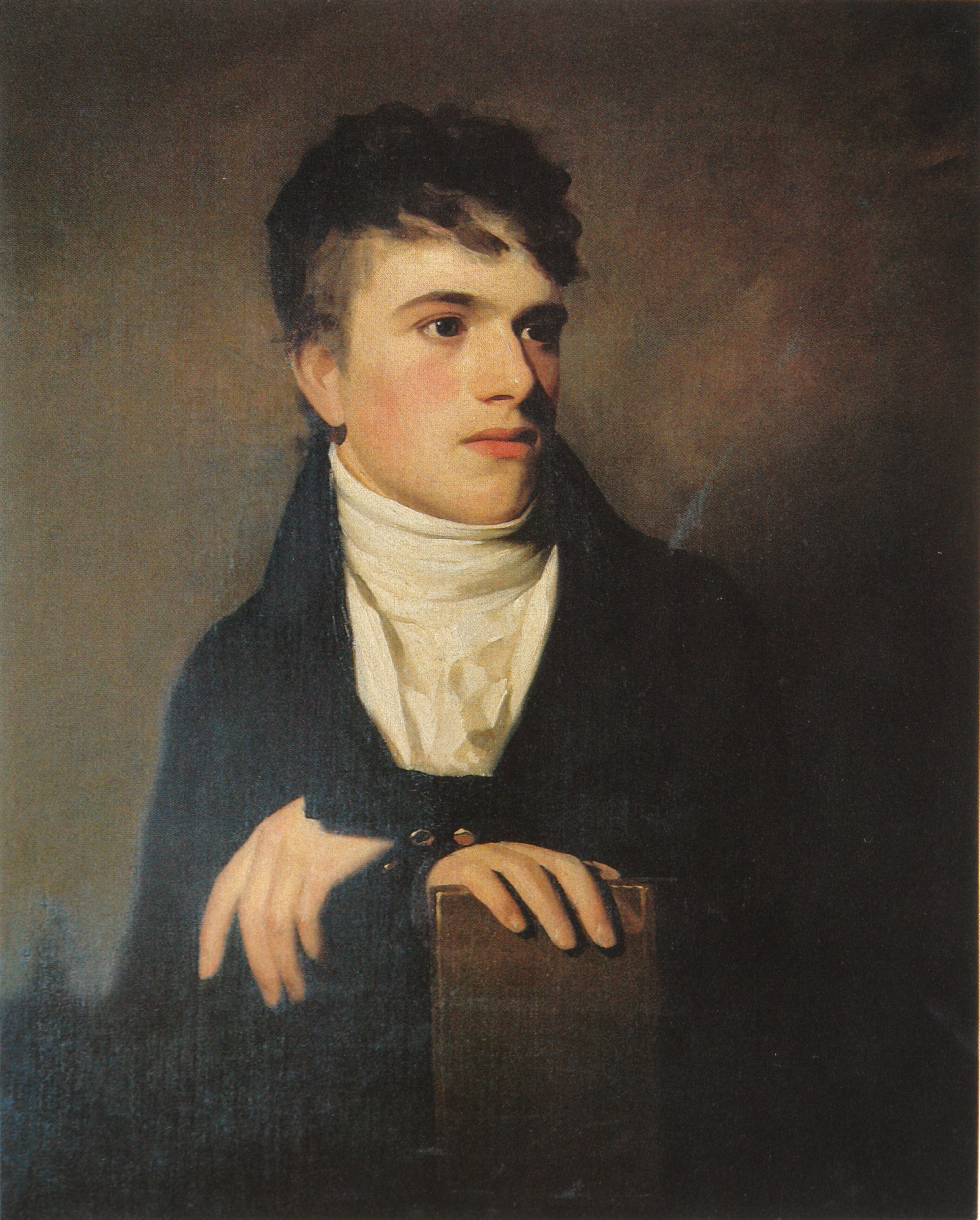 John James Ruskin (1785 — 1864), father of John Ruskin, by George Watson. Oil on canvas, 77.5 x 61 cm.